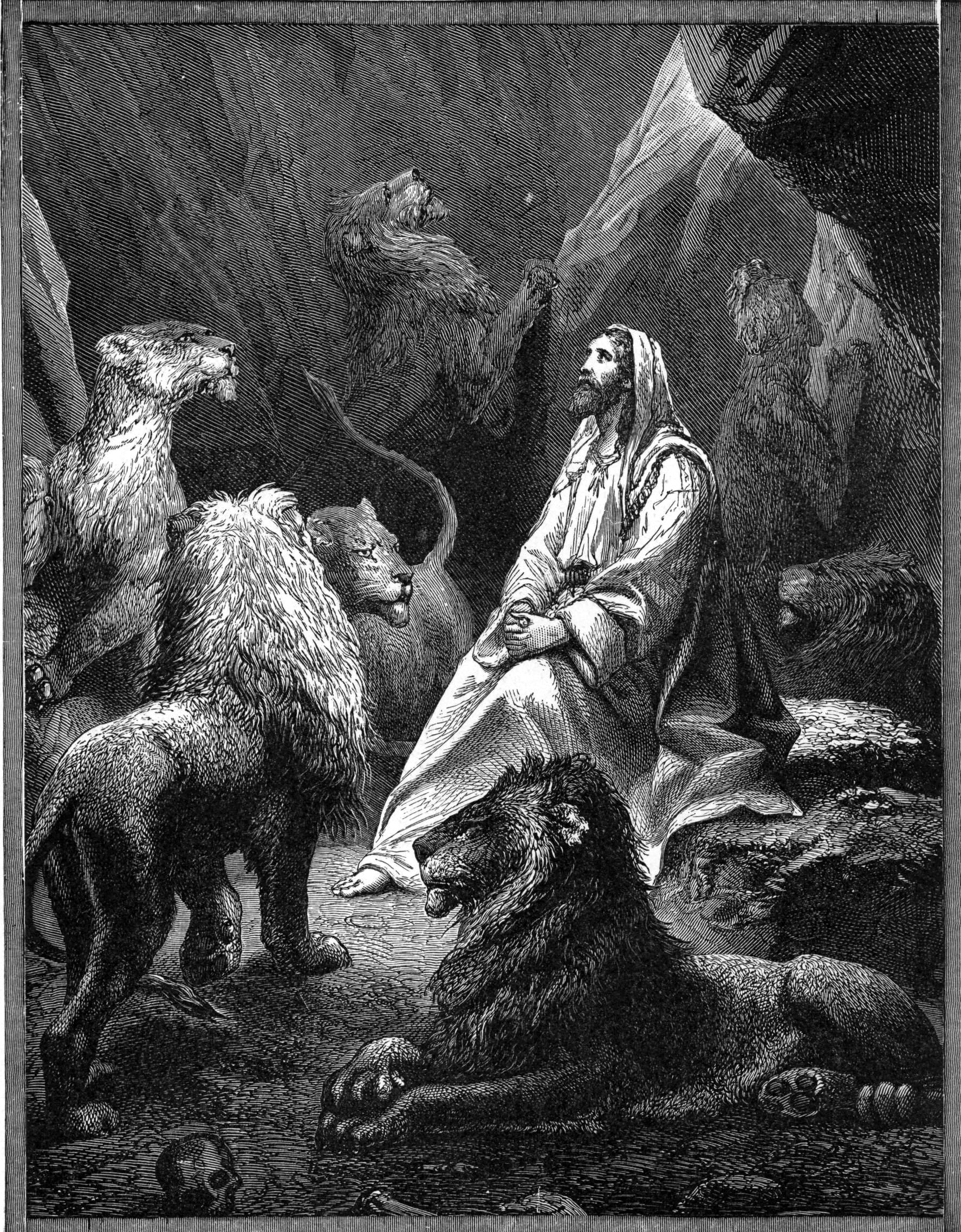 DANIEL IN THE DEN OF LIONS.